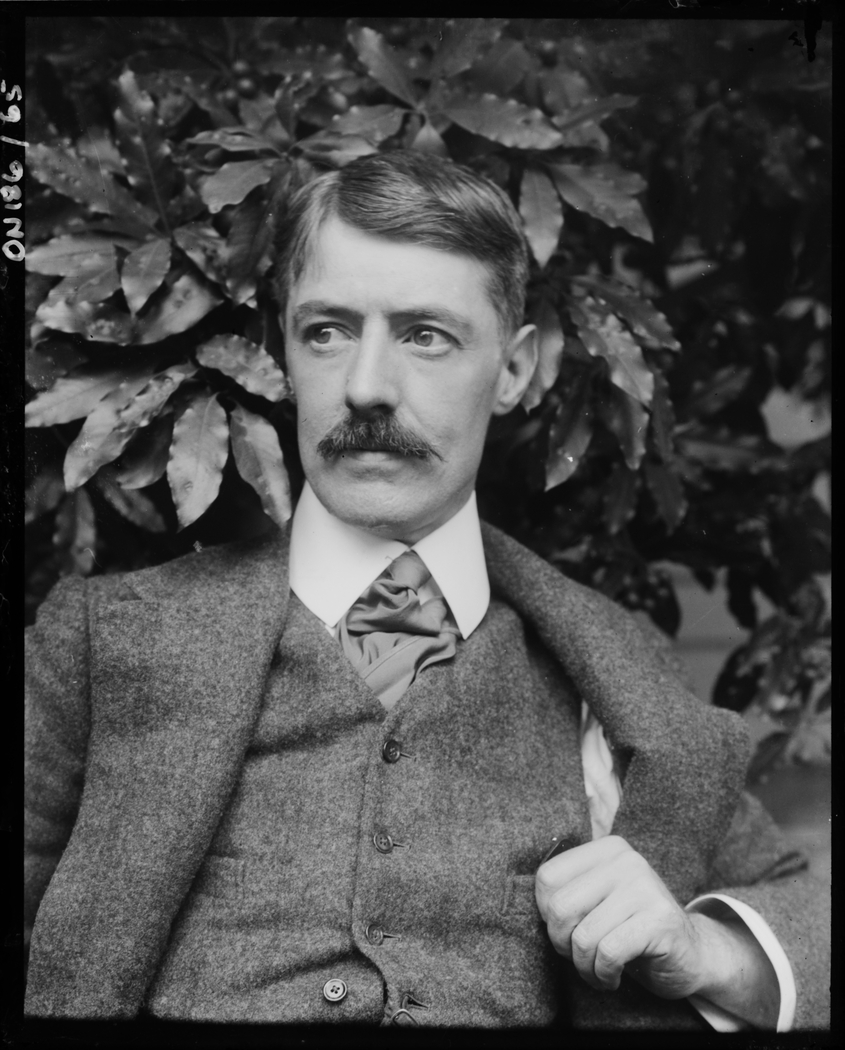 More about Lionel Lindsay: .au/biography/lindsay-sir-lionel-arthur-7756 Format: Photograph Find more detailed information about this photographic collection: .au/item/itemDetailPaged.aspx?itemID=8941 From the collection of the State Library of New South Wales